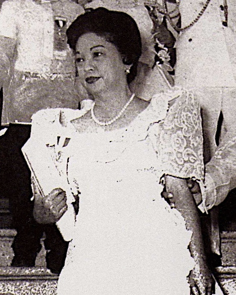 Eva Macapagal, wife of President-elect Diosdado Macapagal, departs her mother's home for the Malacañang Palace on the day of his inauguration. The original caption is as follows: “ President-elect Diosdado Macapagal fetched from his mother-in-law’s residence on Laura Street, San Juan, to fetch Carlos P. Garcia at Malacañan Palace. [Benigno “Ninoy” Aquino Jr. was actually in the committee that picked up Macapagal from the house on Laura Street.] ” This file has been extracted from another file: Diosdado Macapagal departing for Malacañang.jpg